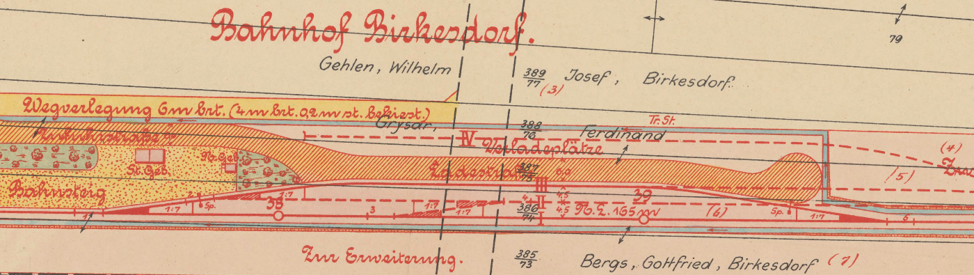 Plan of Birkesdorf-Süd station of Dürener Kreisbahn